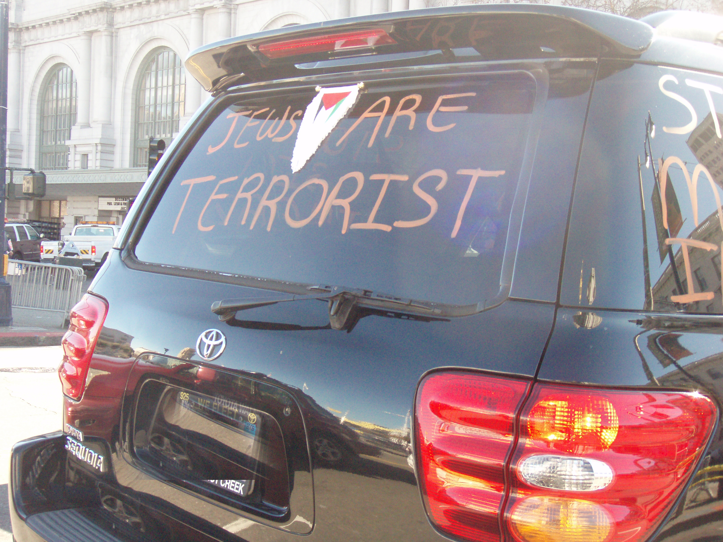 An image from a Palestinian rally in San Francisco. The sign on the car reads: "Jews are terrorists".